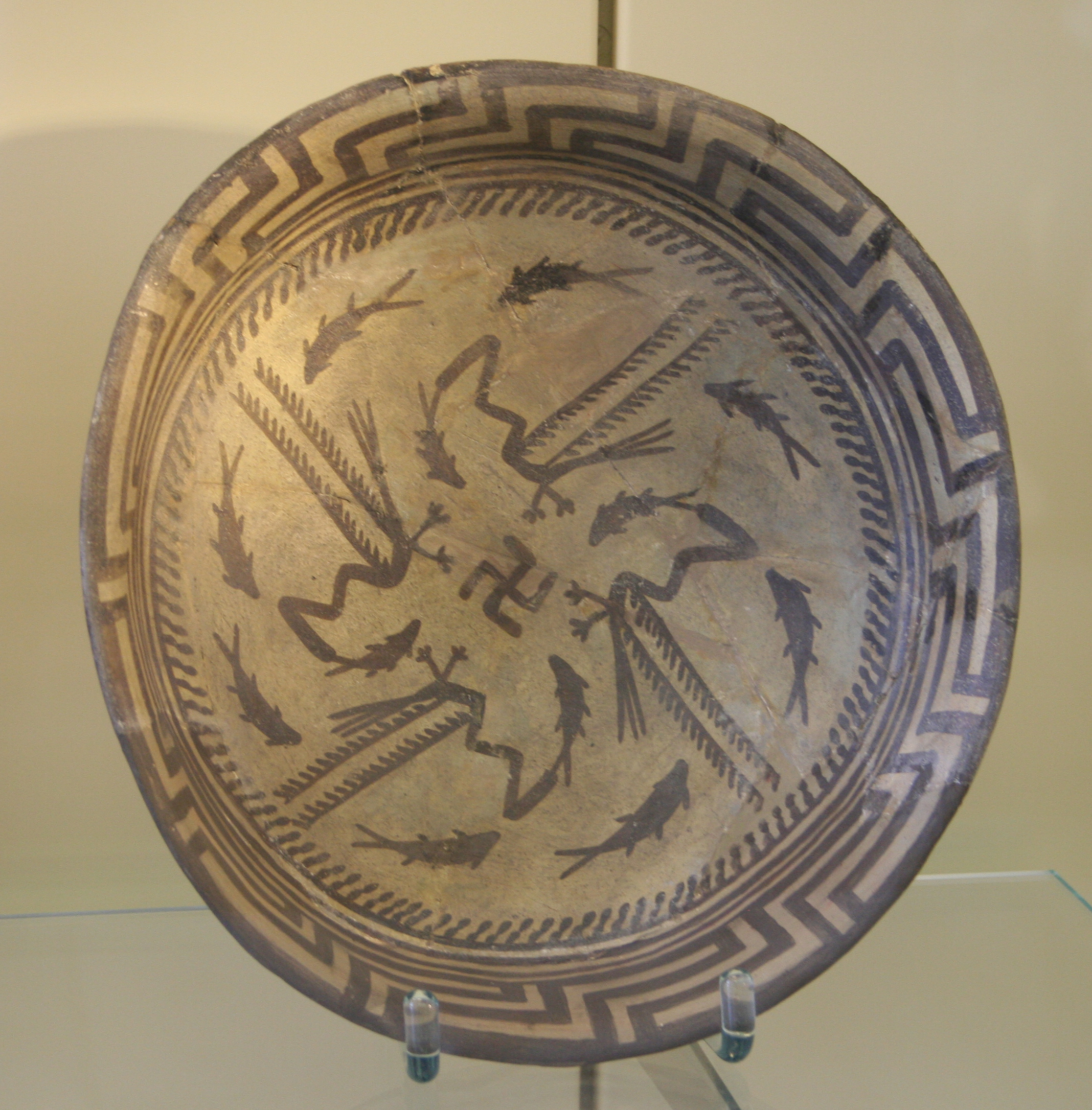 Samarra period fine ware, c. 6200-5700 BC, Vorderasiatisches Museum (Near East Museum), Berlin